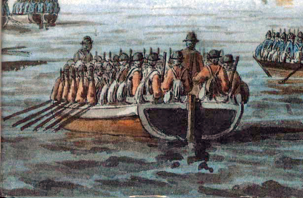 The Occupation of Newport, Rhode Island, December 1776: detail; black and watercolour pen and ink, signed and dated. The artist was an eyewitness to the event, serving as Captain's clerk on HMS Asia. The description "The landing of the British forces in the Jerseys 20 November 1776 by Capt. Thomas Davies, Royal Regiment of Artillery" is cited from [1] in error